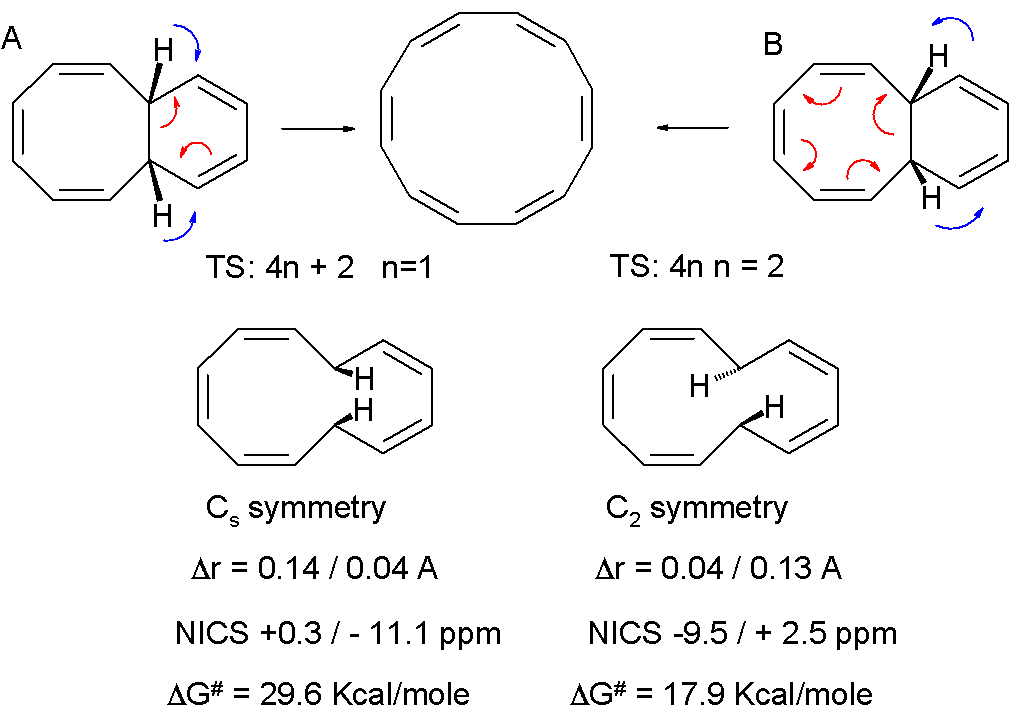 Huckel vs Mobius Transition State